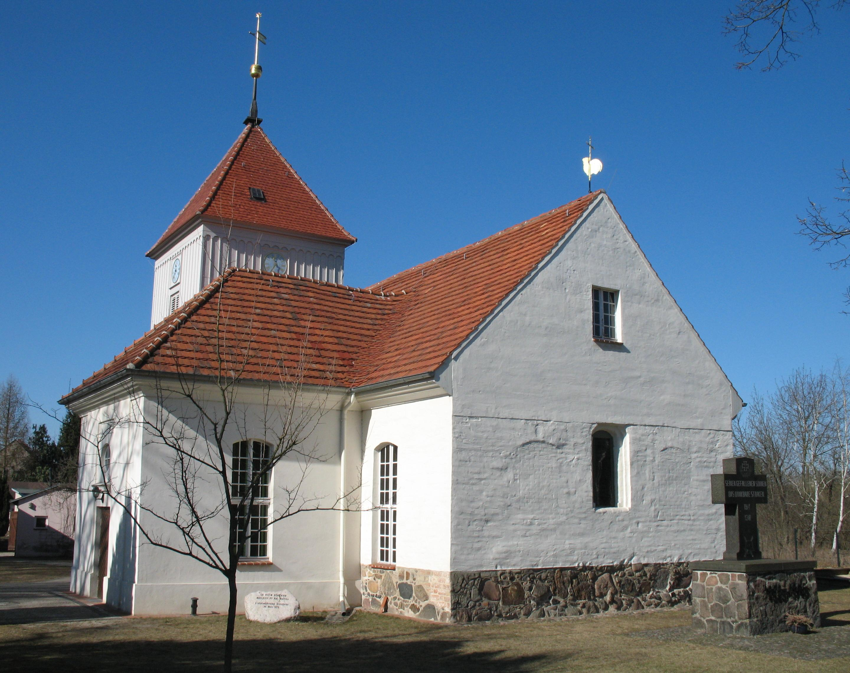 Church in Berlin-Staaken, Germany